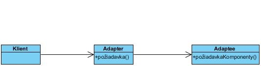 Basic version of Adapter design pattern (object implementation)